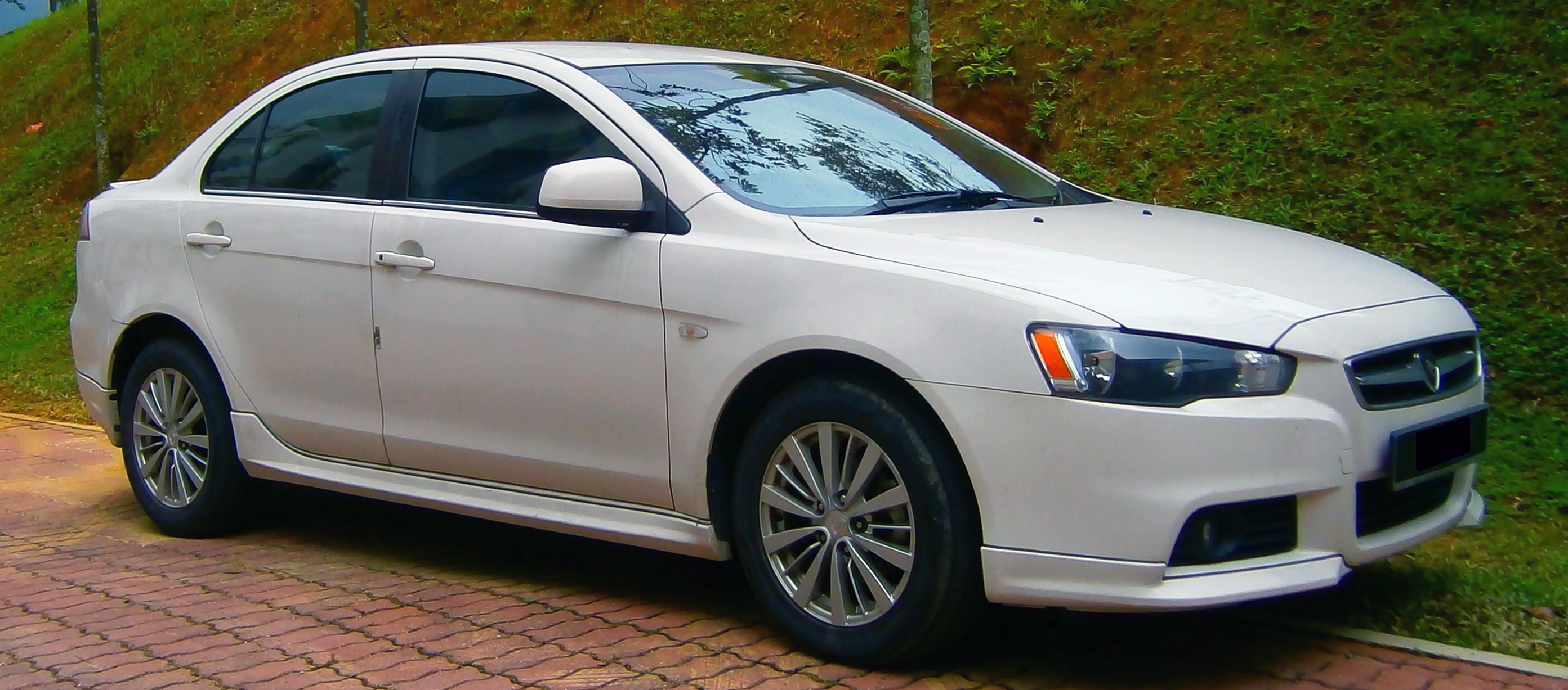 2011 Proton Inspira 2.0P in Cyberjaya, Malaysia. Colour : Solid White